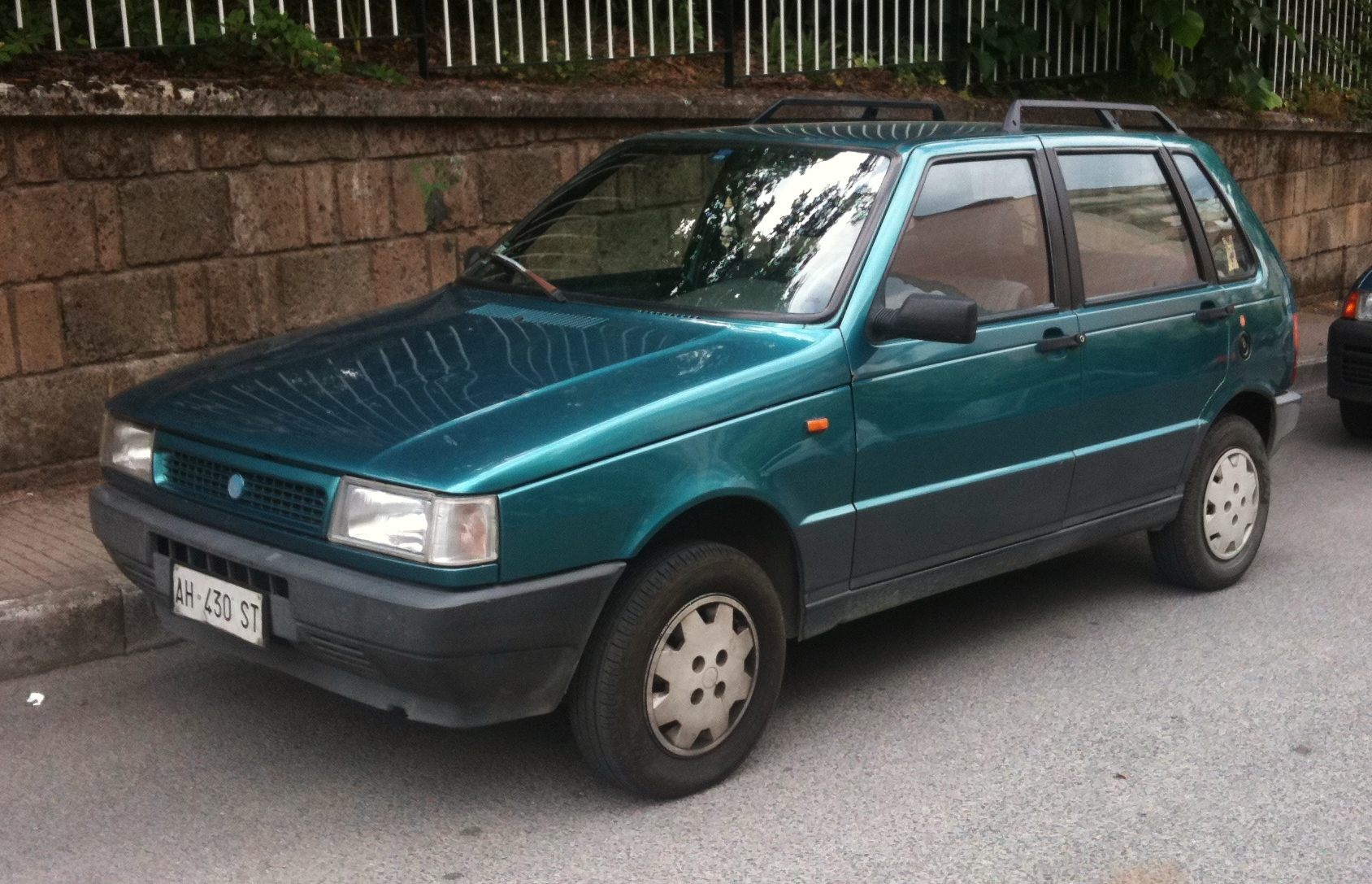 Innocenti Mille 5-door in Avellino